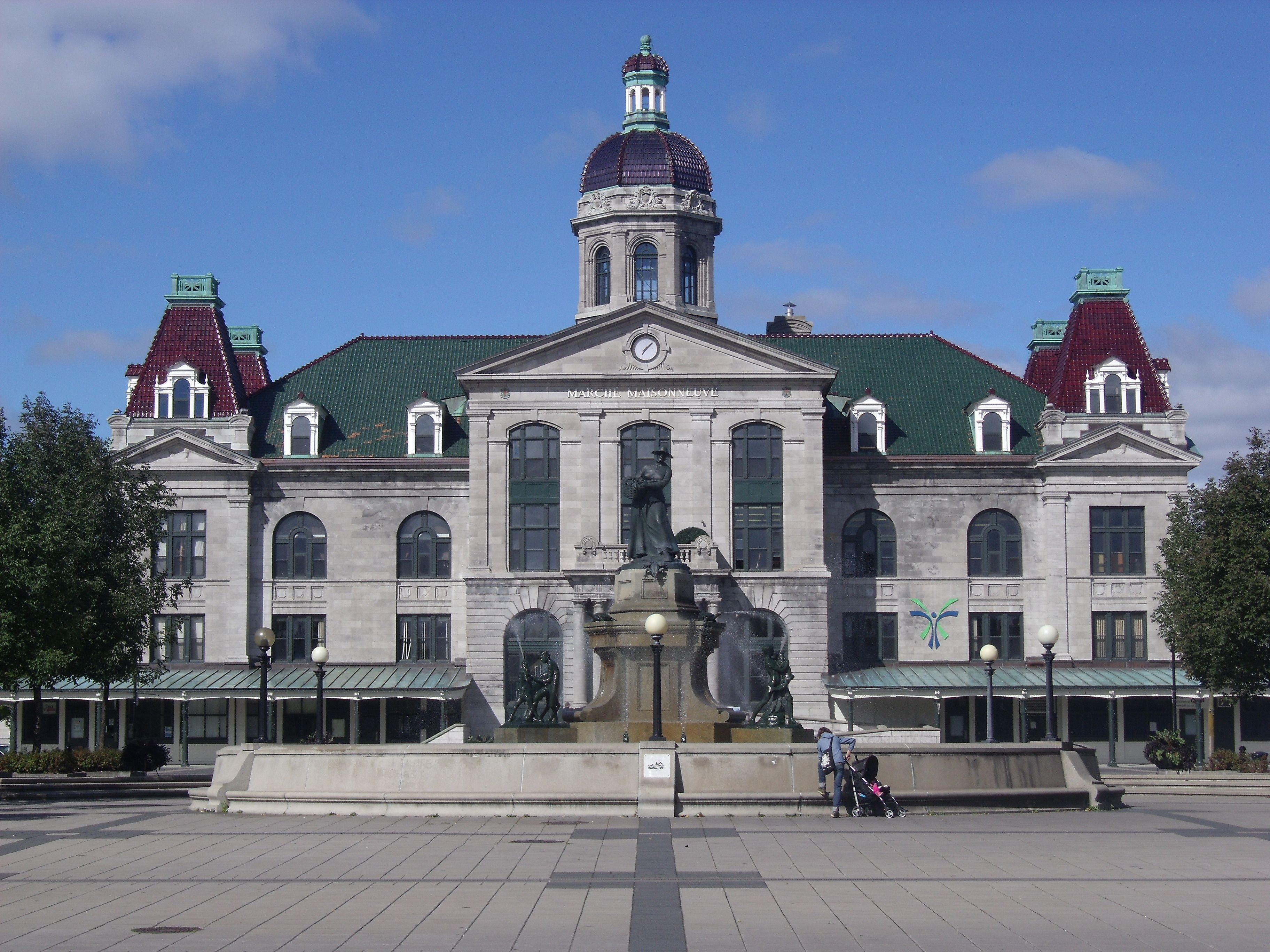 Maisonneuve Market, 4375, Ontario Street East, Montreal, Quebec, Canada.